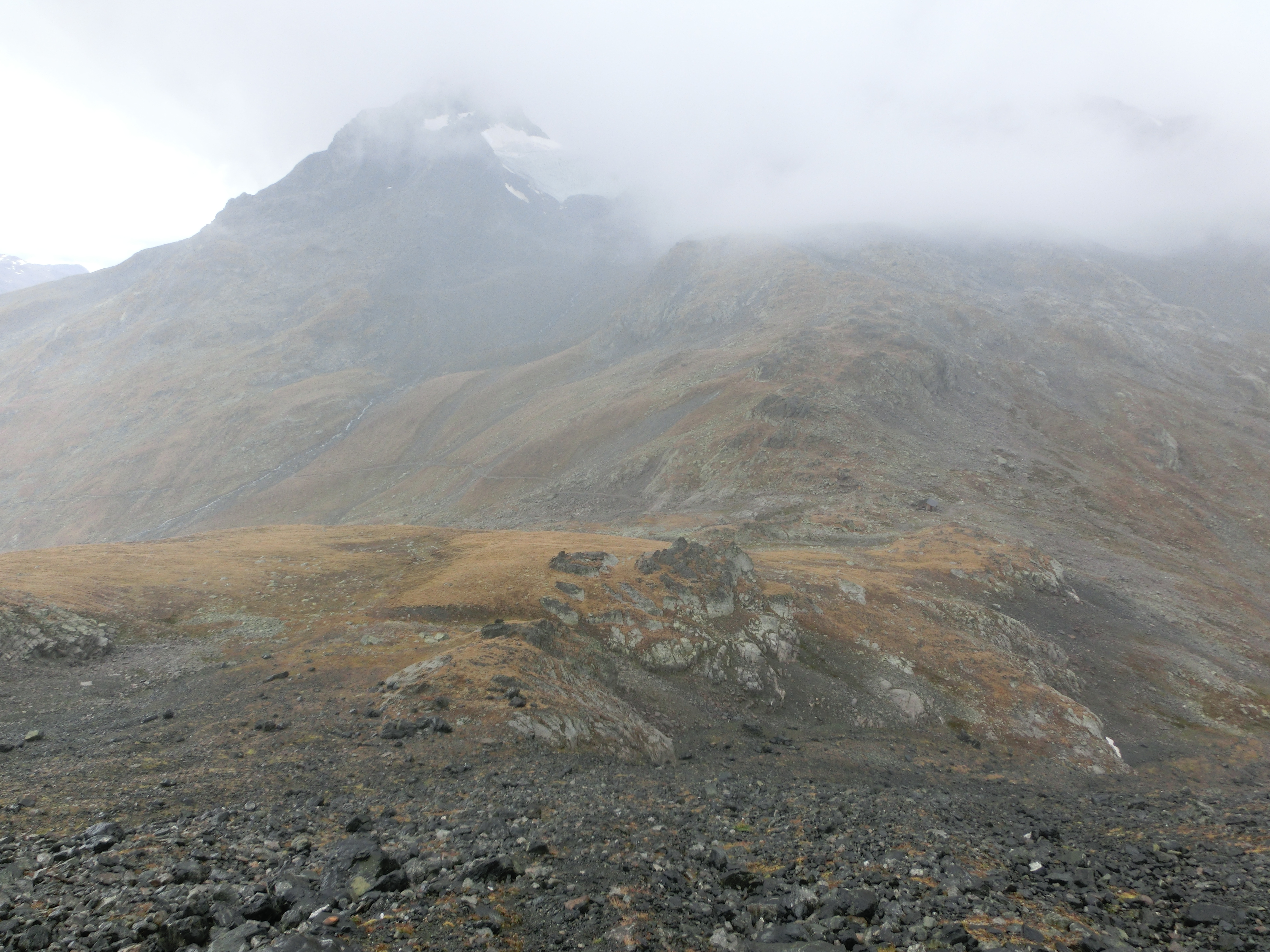 Scalettapass from East, Davos, S-chanf, Grison, Switzerland